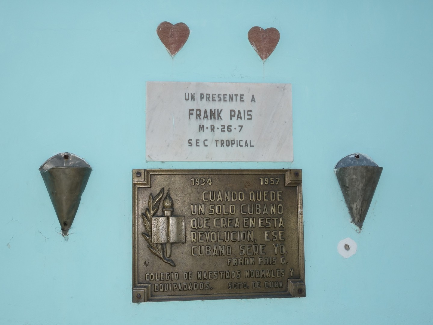 Memorial plaques and restored gunshot hole at site of Frank País's assassination, Santiago de Cuba.